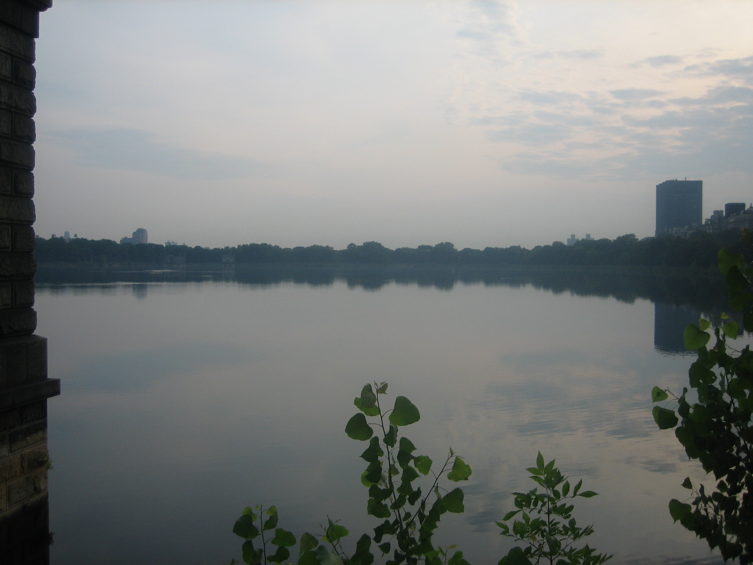 I took photo on July 8, 2007.Billy Hathorn (talk) 23:56, 28 June 2008 (UTC)